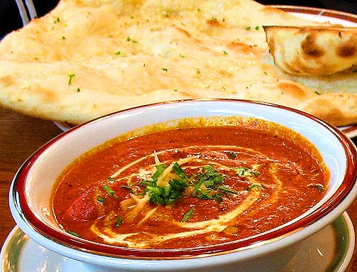 Butter Chicken and NaanButter Chicken and Naan